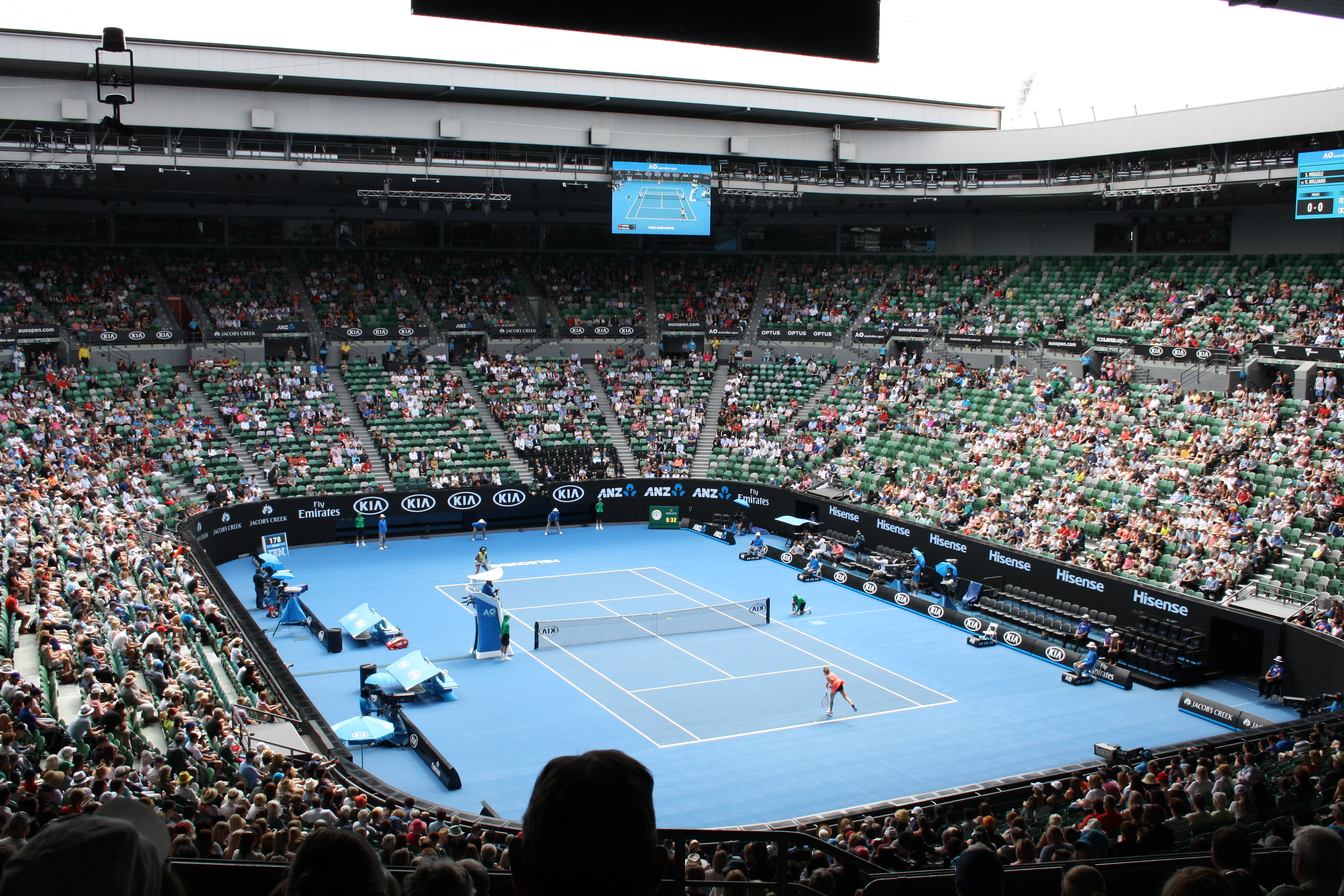 Rod Laver Arena, January 2017